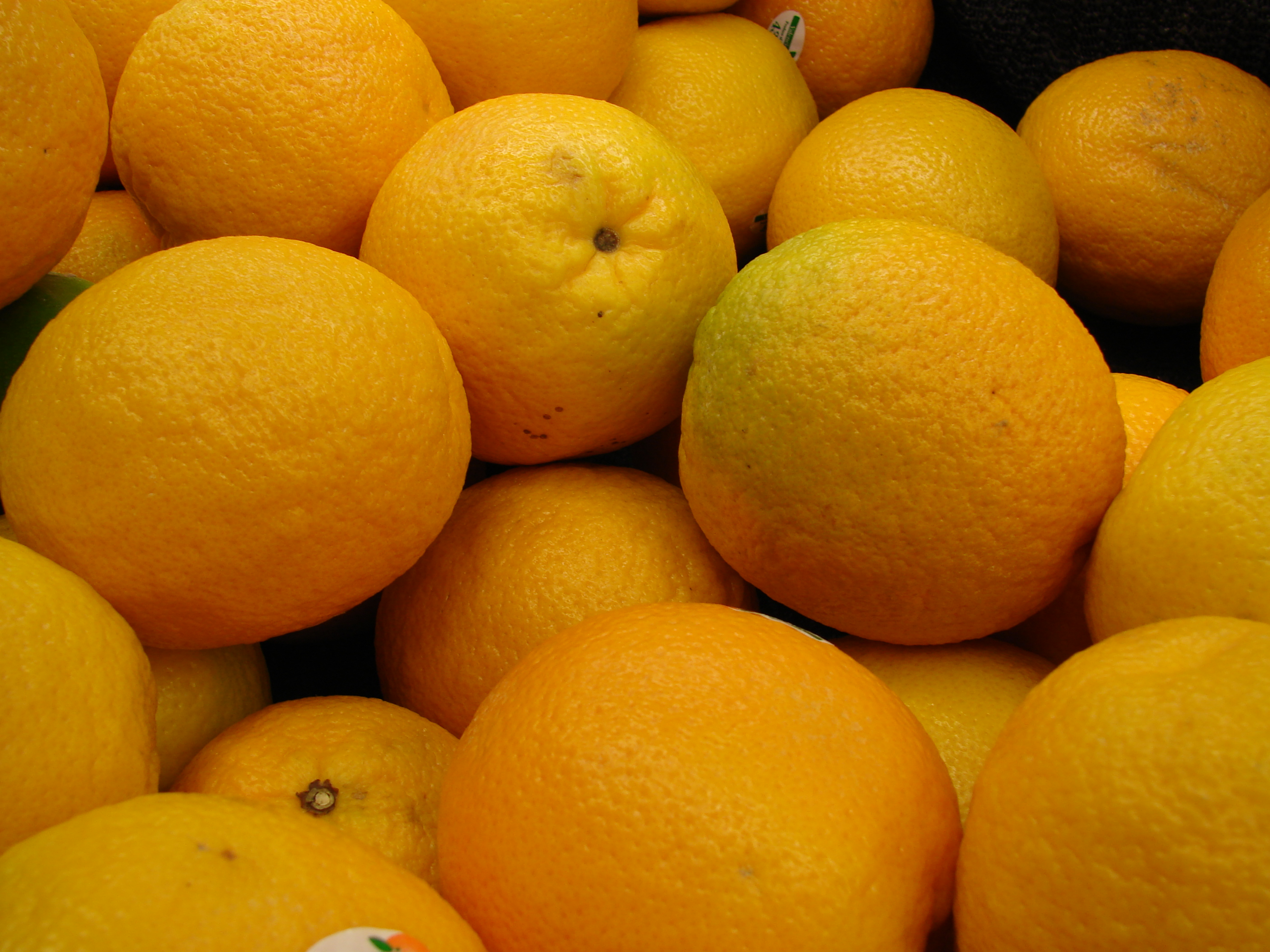 Citrus sinensis (Valencia variety). Location: Maui, Foodland Pukalani